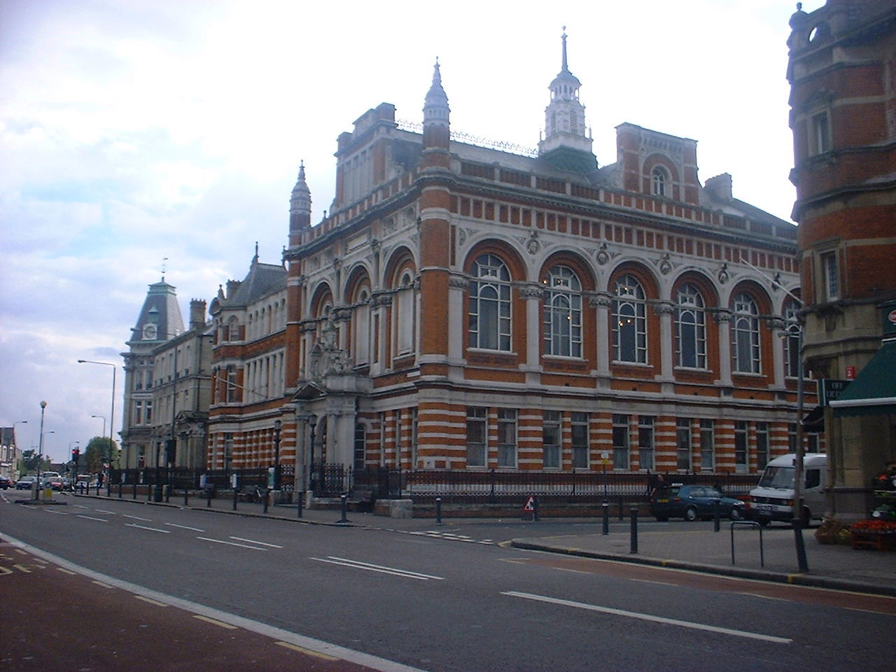 Leyton Town Hall and Library